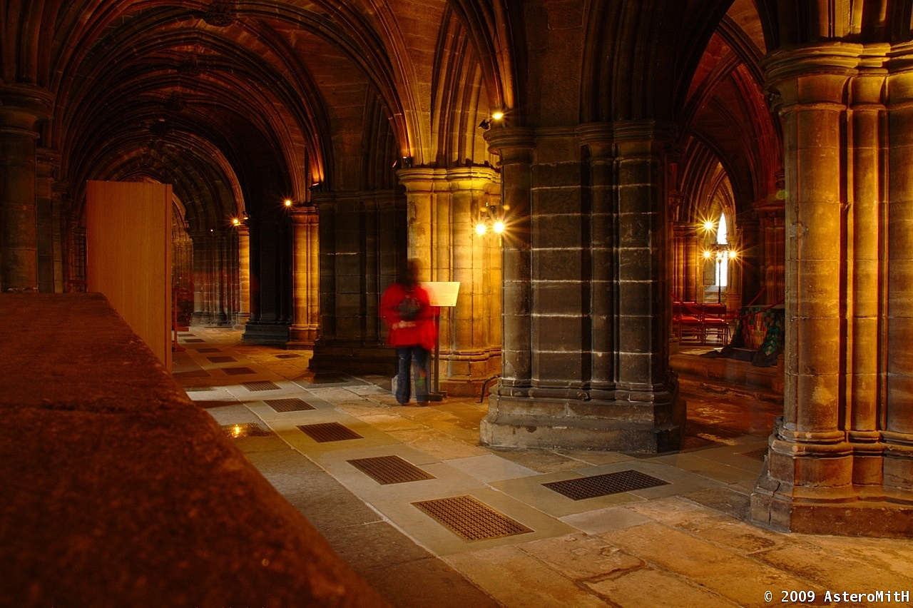 Saint Mungo Underground Crypt